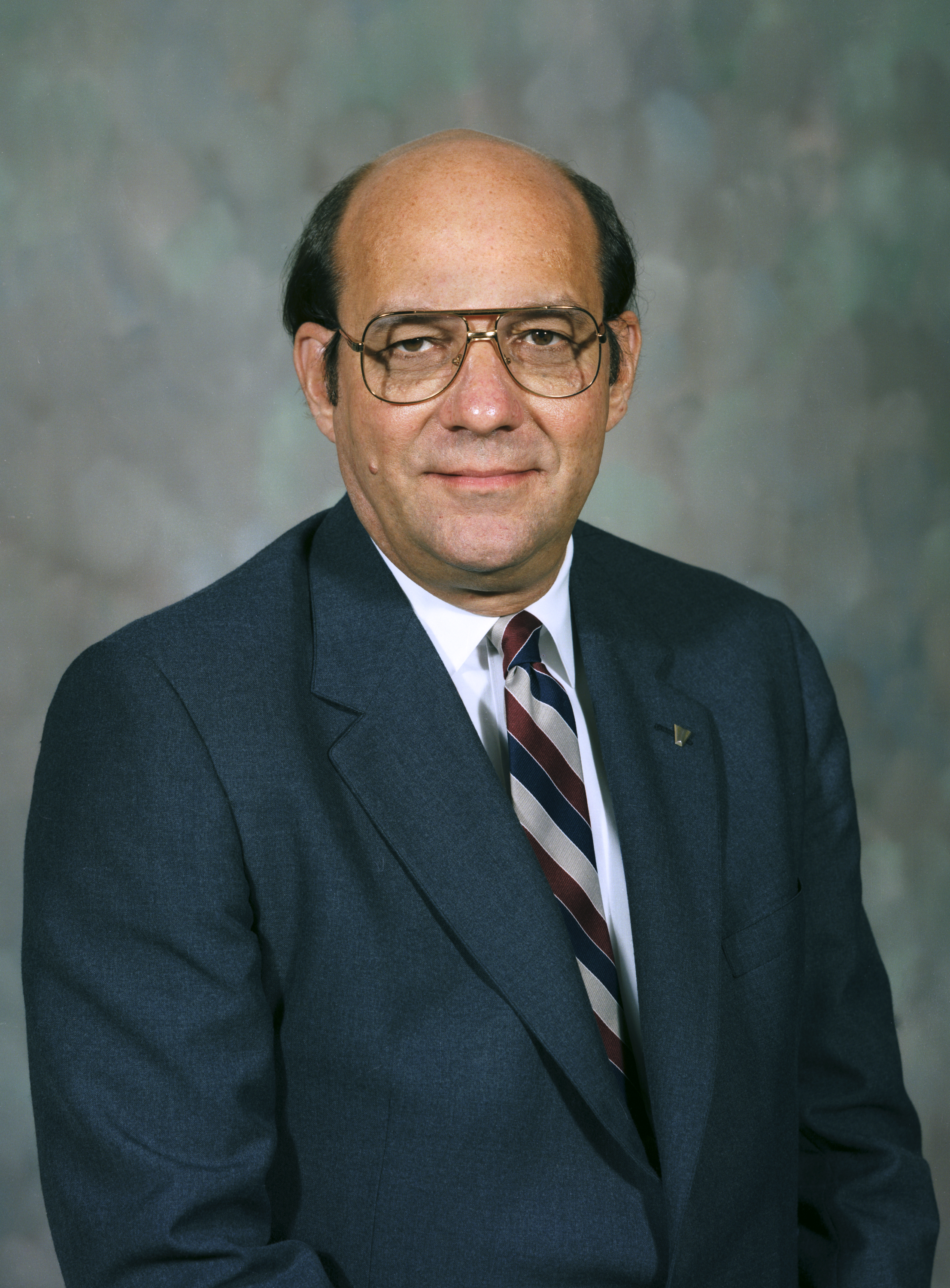 Official NASA portrait of former MSFC director James R. Thompson Jr.